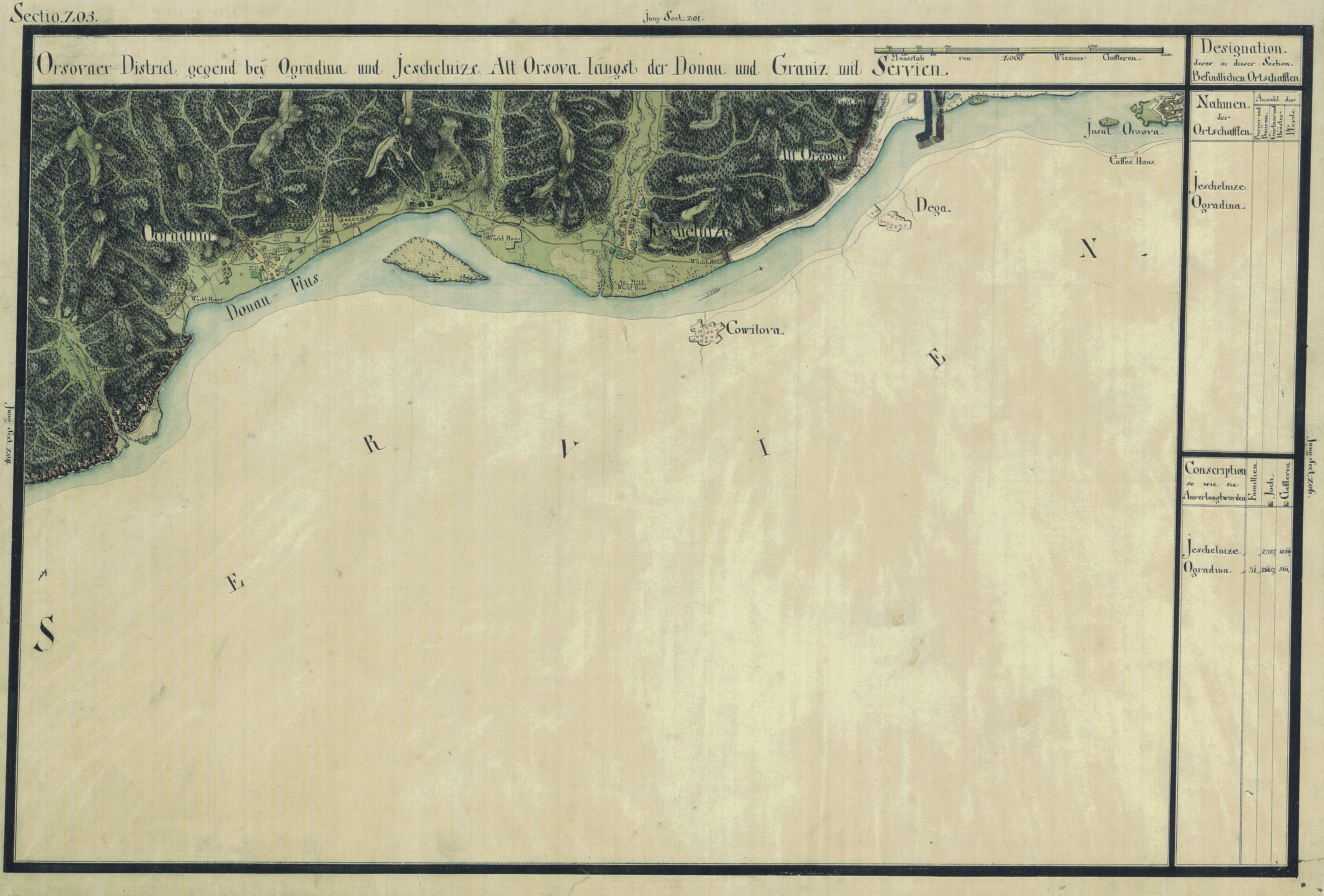 The Banat region in the cadastral maps: Josephinische Landesaufnahme, 1769-72. Josephinische Landaufnahme pg205